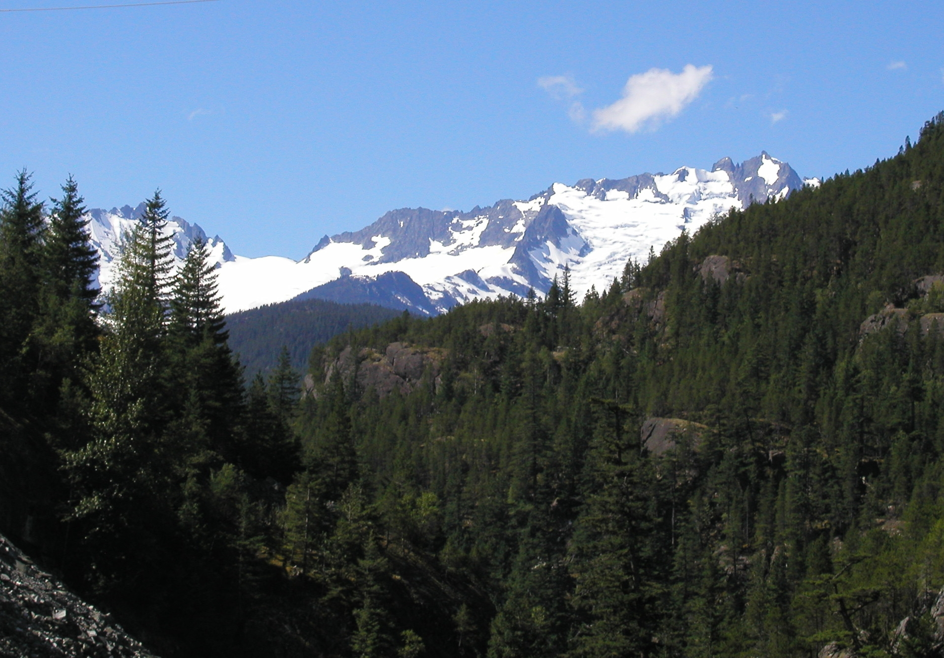 The Tantalus Range in southwestern British Columbia.